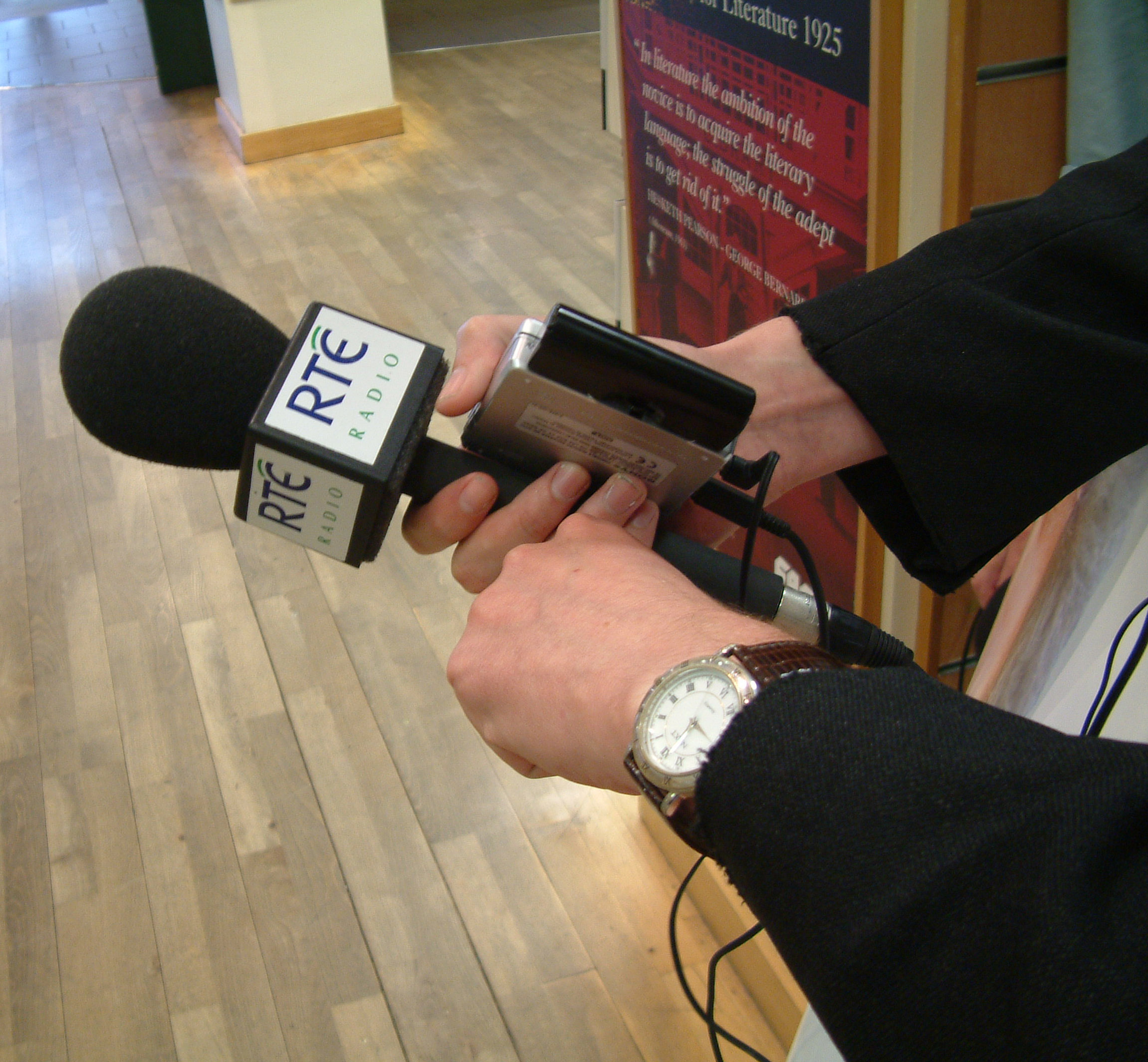 An RTÉ Radio microphone in Dublin, waiting for Bill Clinton